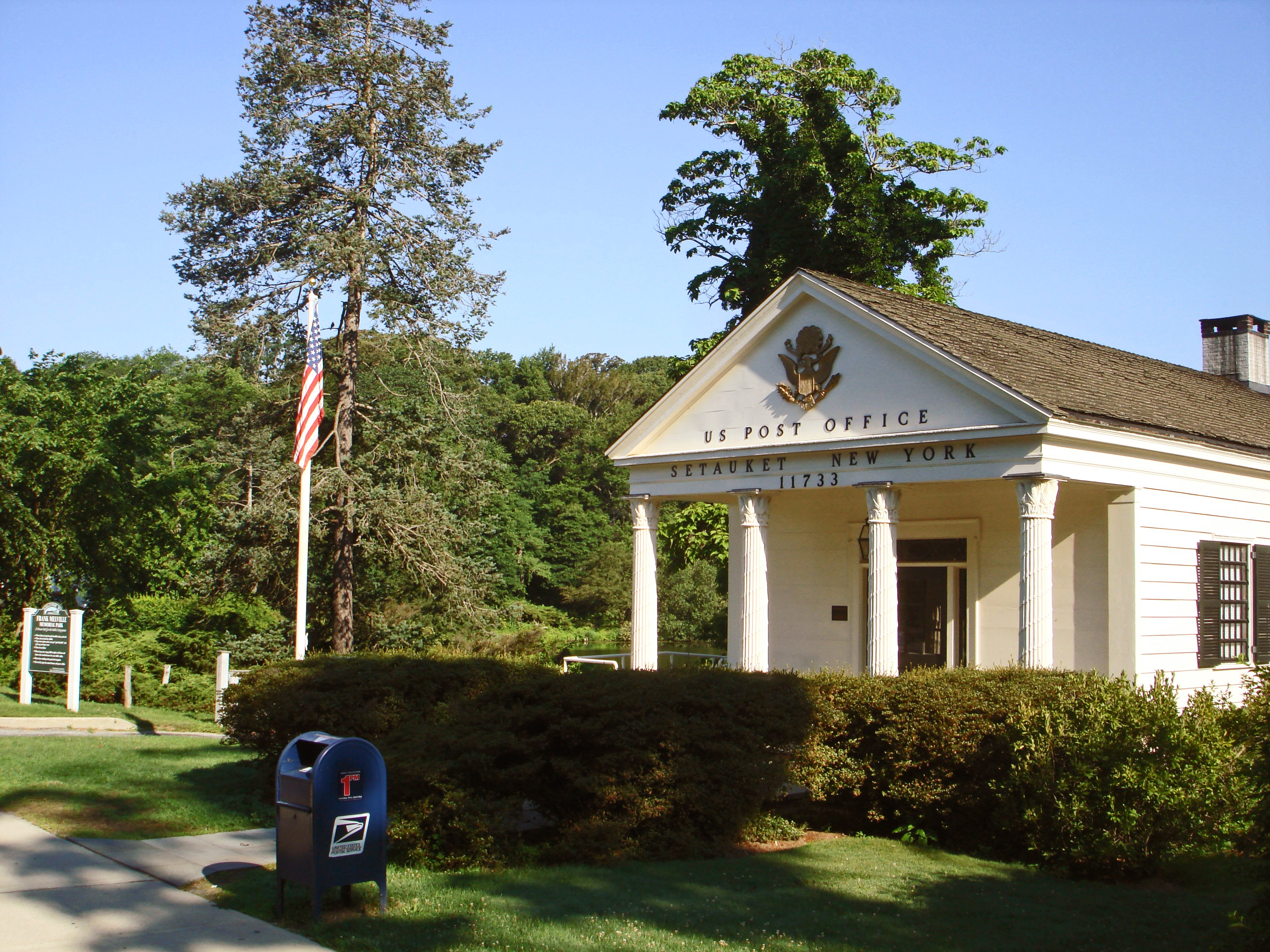 Post office at Setauket-East Setauket, New York.